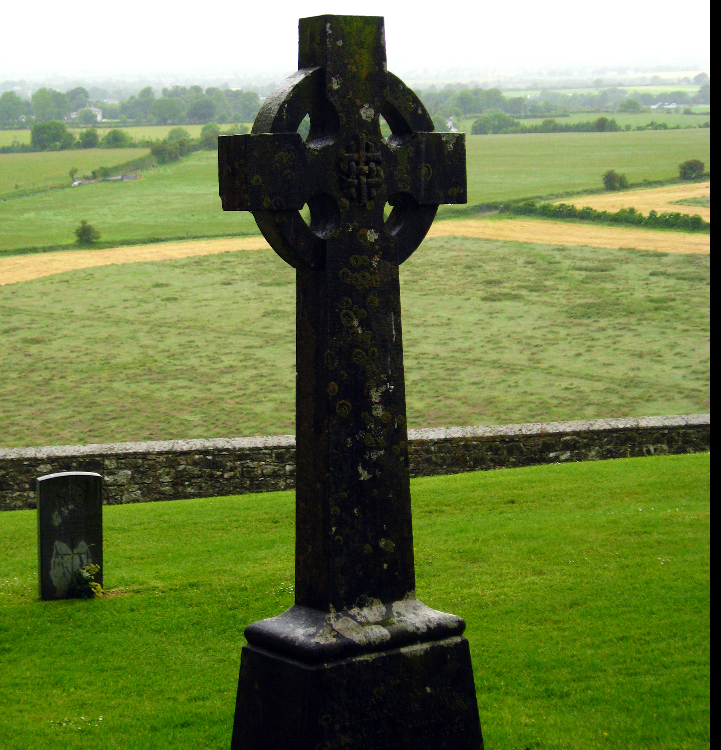 Irish Cross at the Rock of Cashel on a rainy day.